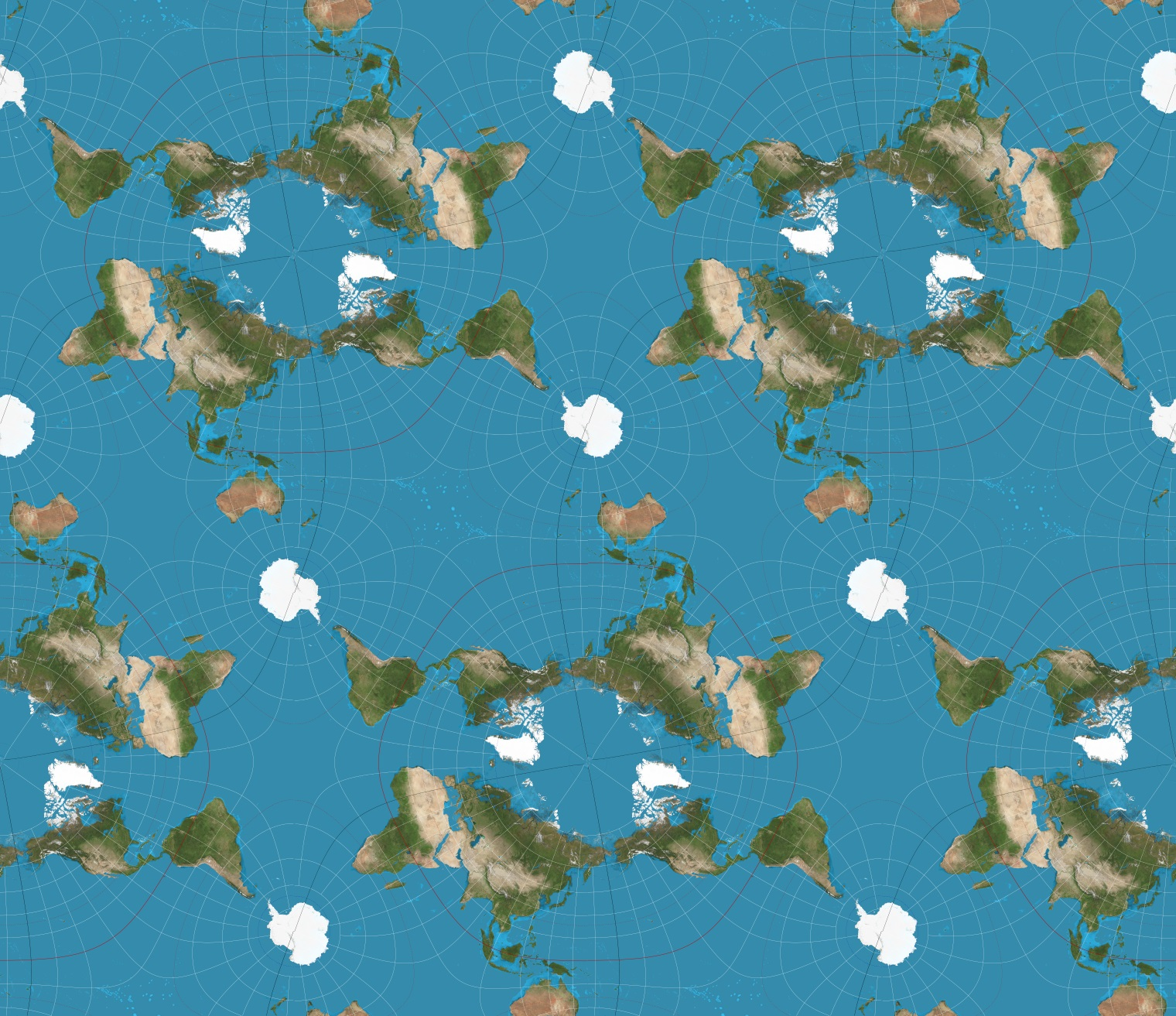 The world on a Lee tetrahedral projection, tessellated several times in two dimensions. 15° graticule. Imagery courtesy NASA’s Earth Observatory, with modifications by Mapthematics LLC.